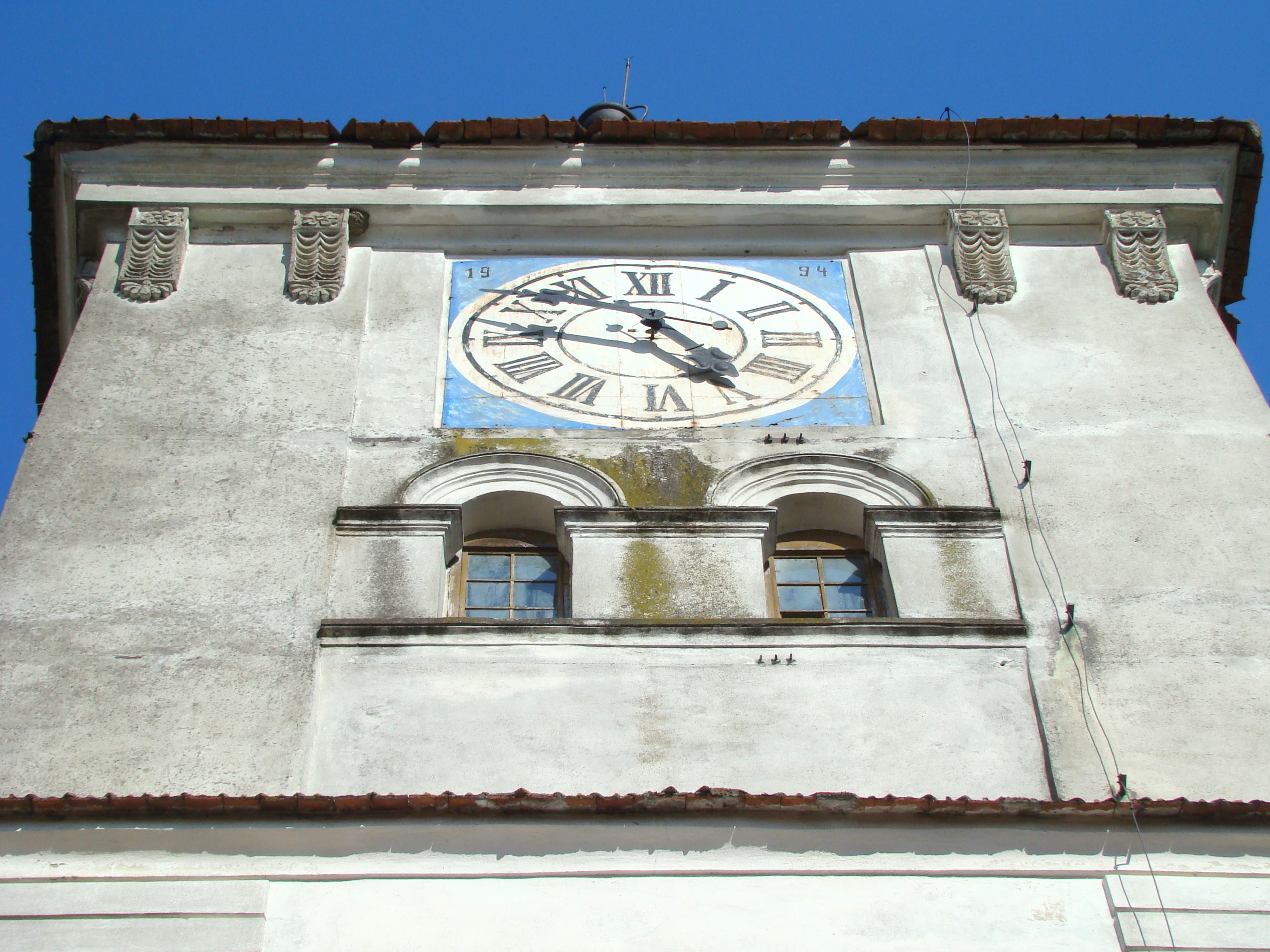 Fortified church in Măieruș, Brașov County, Romania